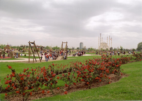 Adana central park